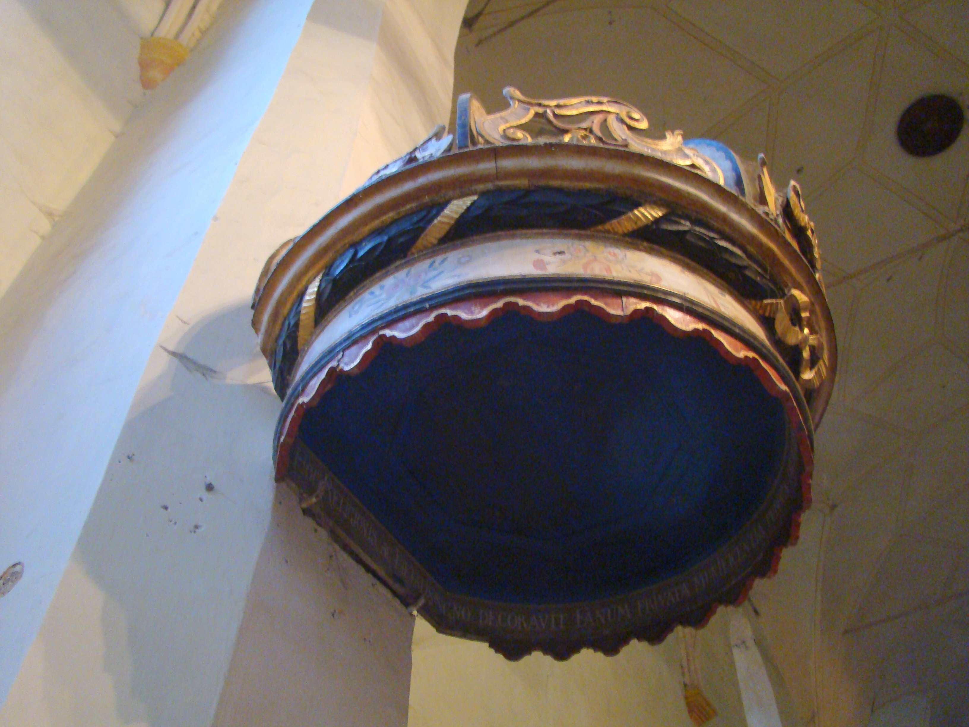 Lutheran church in Dupuș, Sibiu County, Romania